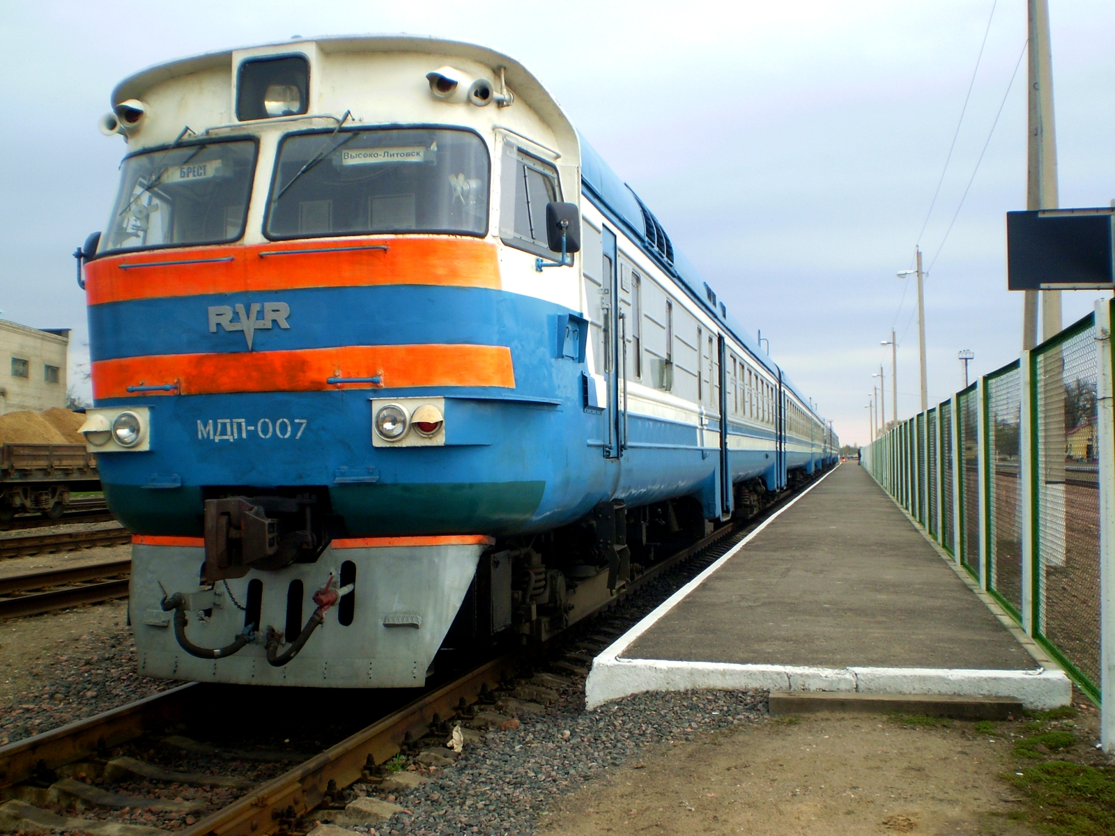 Diesel multiple units DR1 in Belarus.